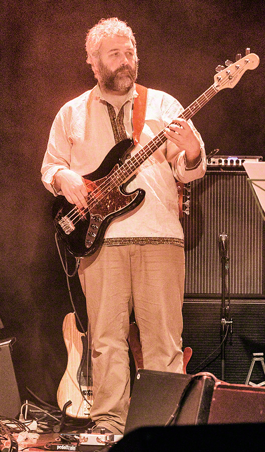 Johannes Sæbøe performs with Lars Bjerkmann at Cosmopolite in Oslo on 5.3.16. Lineup:Jørgen Gaardvik (drums)Magnus Larsen jr (bass)Baard Slagsvold (piano / ukulele)Arne Sæther (hammond organ)Bitten Forsudd (tuba / choir)Mona Mauseth Evensen (choir)Ingrid Pedersen (choir)Andreas Løvold (trumpet)Mathias Hole (trombone)Michael Strütt (tenor saxophone)